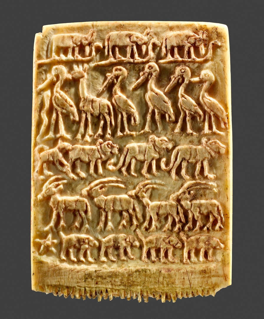 Davis comb, ivory, Predynastic, Late Naqada III, ca. 3200–3100 B.C., Metropolitan Museum of Art, New York, 30.8.224